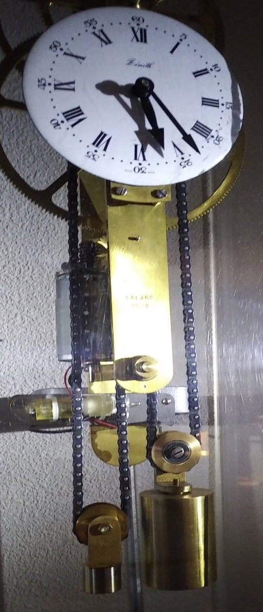 photo of actual Huygens maintaining mechanism